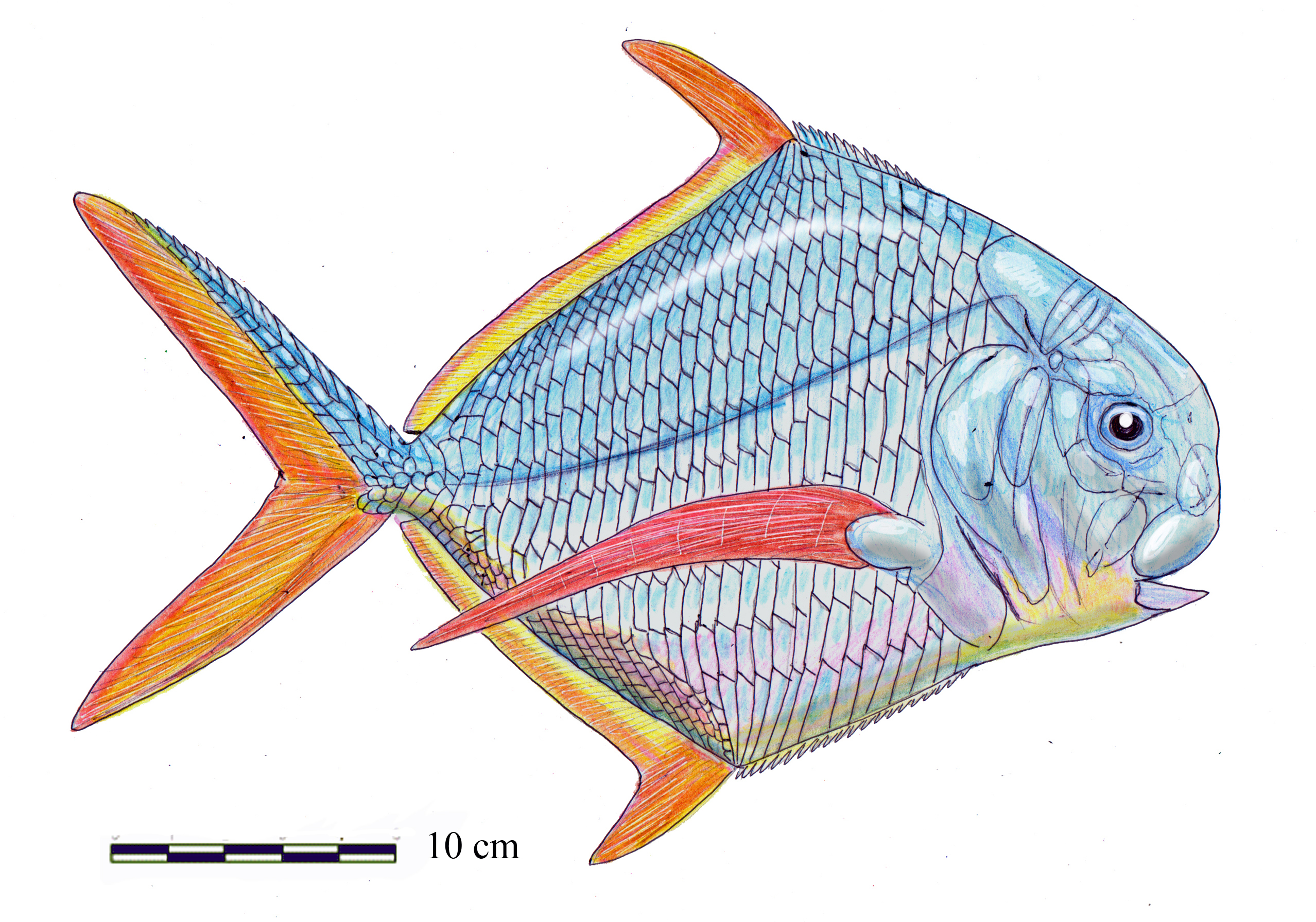 Reconstruction of Bobasatrania canadensis, primitive Actynopterygian from Early Triassic of the Wapiti Lake region of British Columbia, Canada